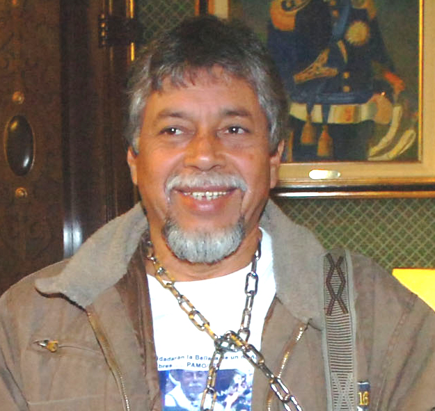 Gustavo Moncayo (croped version)